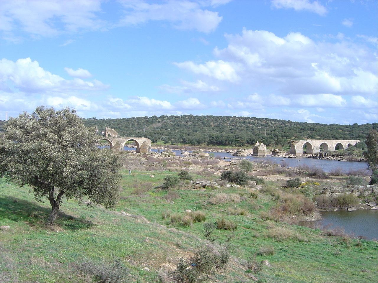 Old Bridge of Ajuda over River Guadiana, between Elvas (Portugal) and Olivenza (Spain).